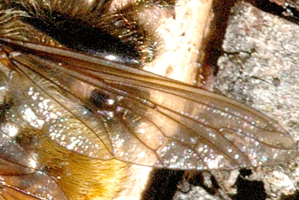 Picture taken in Commanster, Belgian High Ardennes . Species: Laphria flava, wing detail